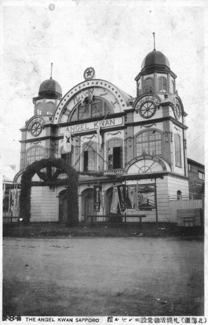 A postcard on the Angel Kwan, a movie theater in Sapporo, Japan.